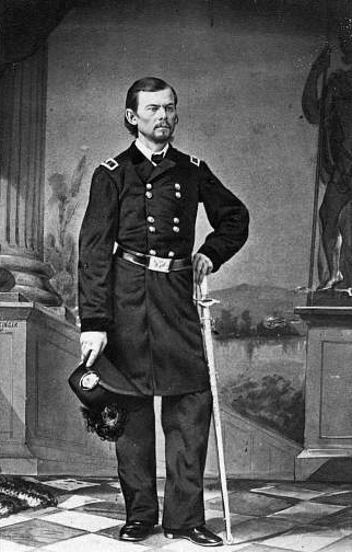 General Franz Sigel, full-length portrait, in military dress with sword, facing right